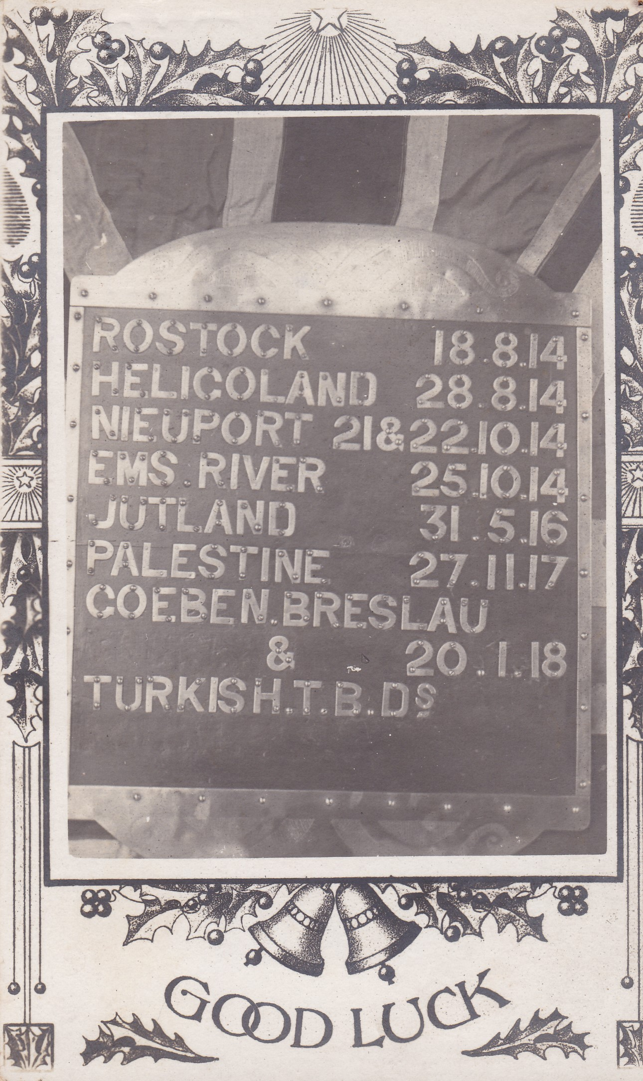 picture of Battle Plate circa 1918